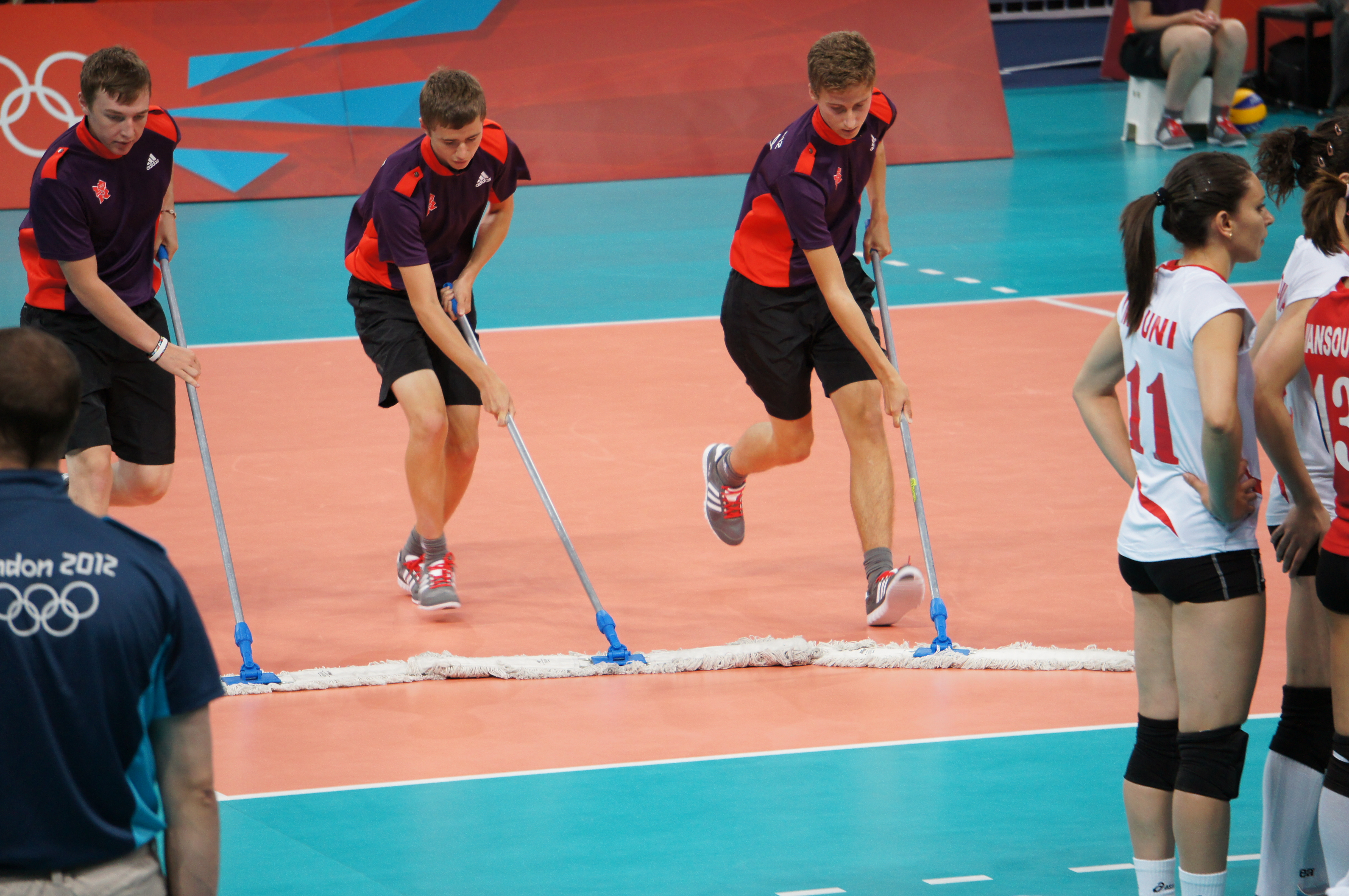 Algeria women's national volleyball team at the 2012 Summer Olympics